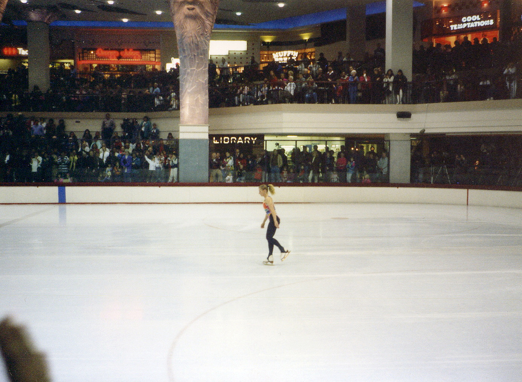 Tonya Harding practices for the 1994 Olympics. Location of picture is Clackamas Town Center in Portland, Oregon.